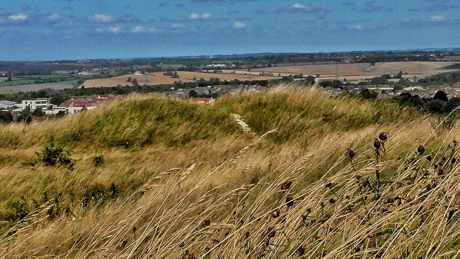 This is an image looking over part of the Five Knolls Barrow Cemetery in Dunstable, Bedfordshire, dating from the Neolithic - Saxon eras. Some medieval rabbit warrens can also be seen. The view is to the north.